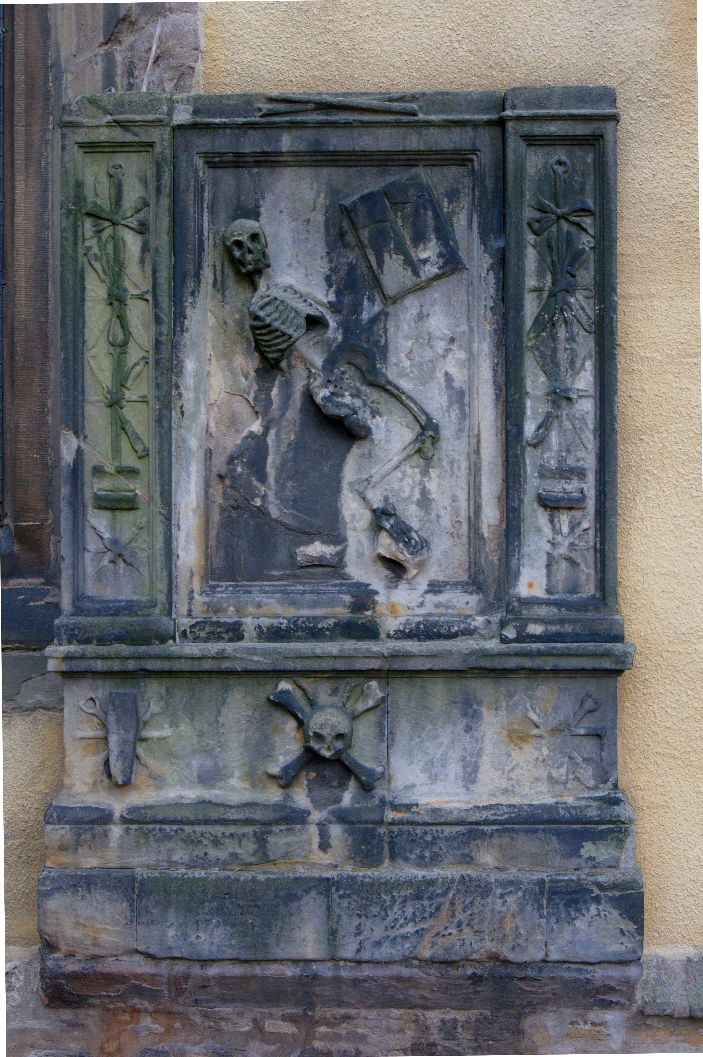 Memento mori on Greyfriars Kirk, Edinburgh